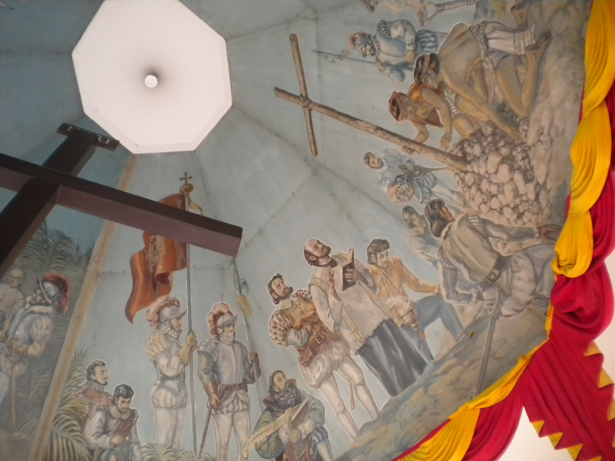 Ceiling of the Basilica del Santo Niño, the Mother and Head of All Churches in the Philippines.